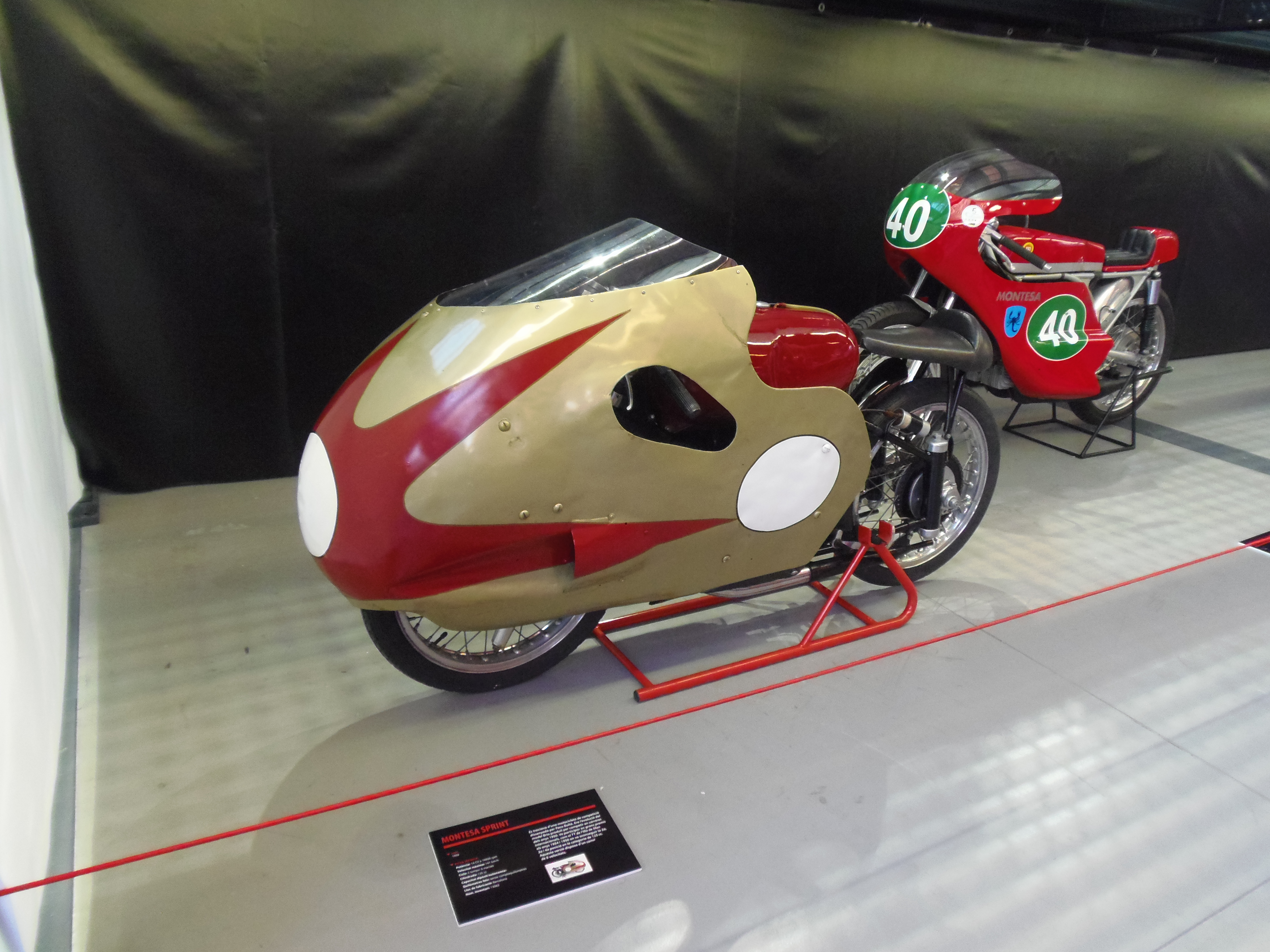 Montesa Sprint 125cc. On three bikes like this, Marcel Cama, Paco González and Enric Sirera finished second, third and fourth (after Carlo Ubbiali) at the 1956 Manx TT.